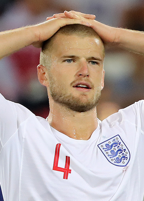 Eric Dier playing for England against Belgium at the 2018 FIFA World Cup